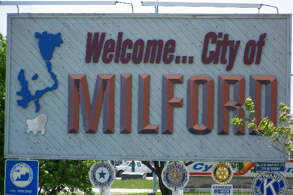 Milford welcome sign that can be seen coming into town on Highway 71 south.